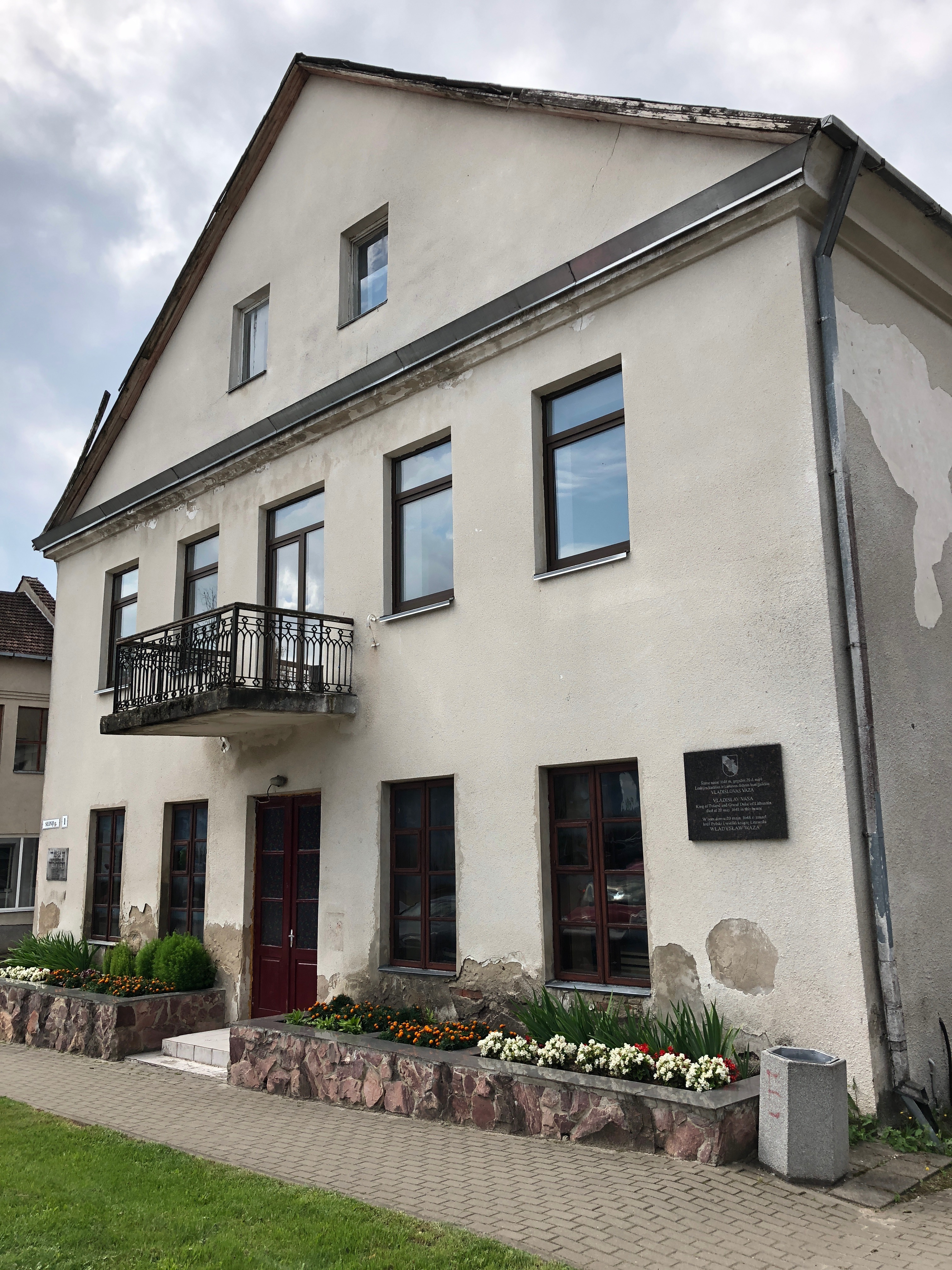 The house in Merkinė where Lithuanian Grand Duke Władysław IV Vasa has died.